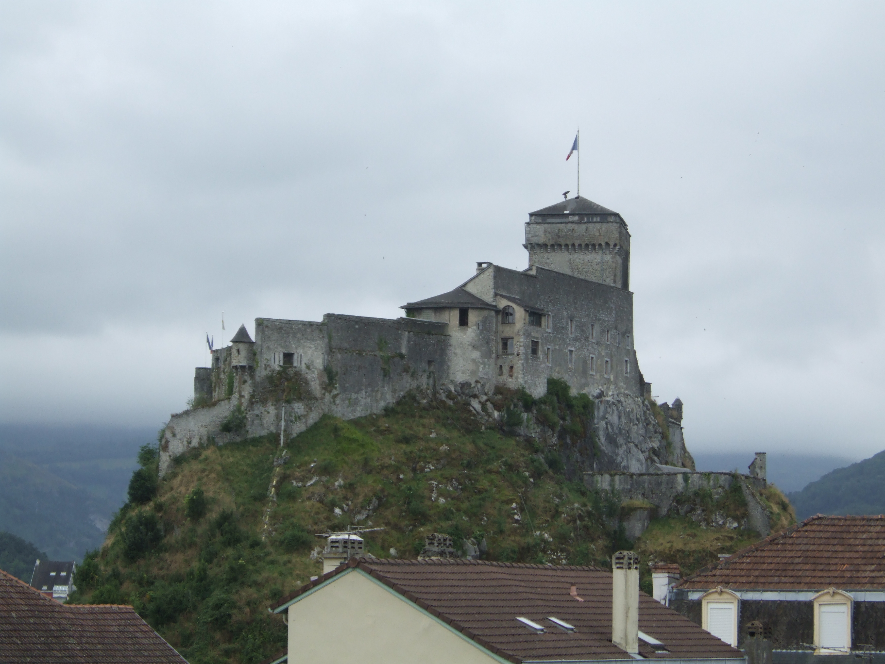 Fortress of Lourdes